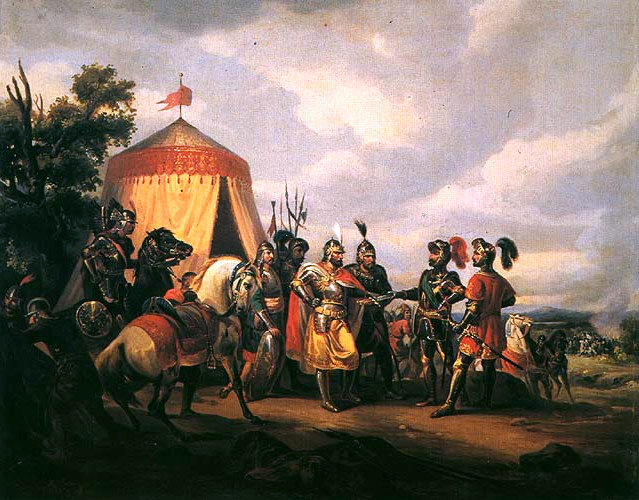 Feliks Sypniewski "Before the Battle of Grunwald". Oil on canvas, 1852.